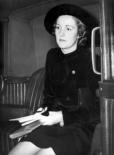 Unity Mitford (1914-1948). Full name: Unity Valkyrie Freeman-Mitford. Miss Mitford was a supporter of Nazism and fascism, and formed part of Hitler's inner circle of friends. On the picture Unity Mitford wears a pin of the National Socialist German Workers' Party.